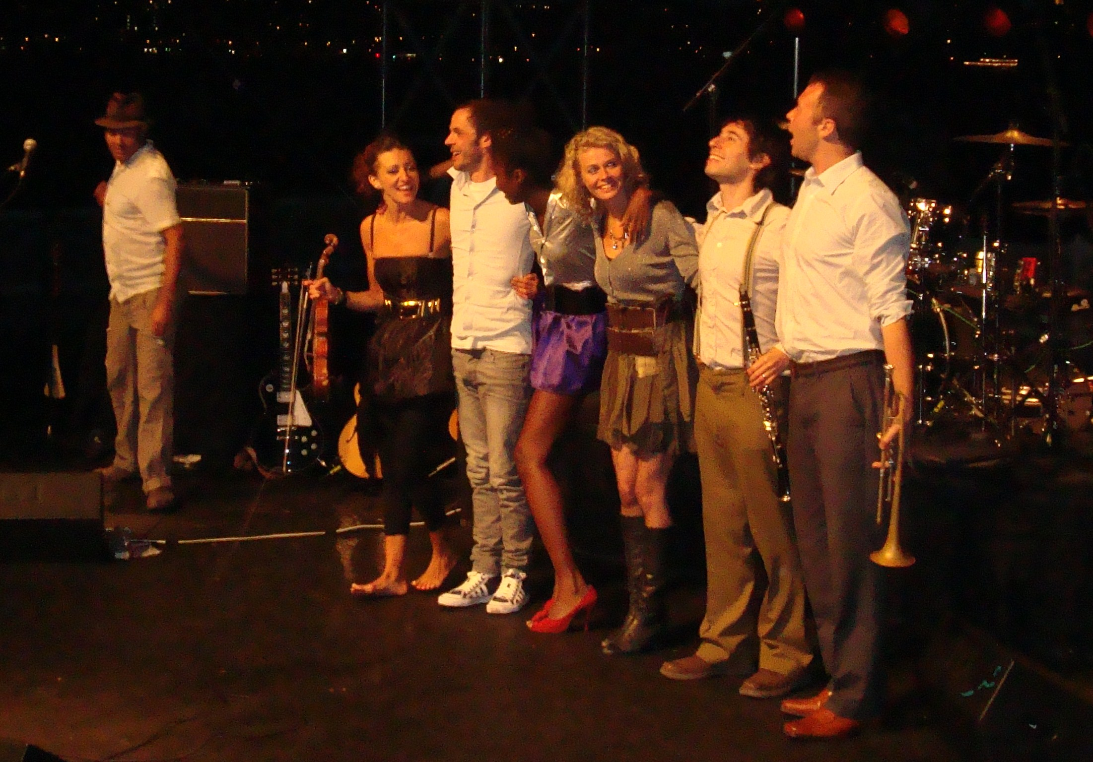 The british band Oi Va Voi at a concert at the Theaterspektakel in Zurich, Switzerland